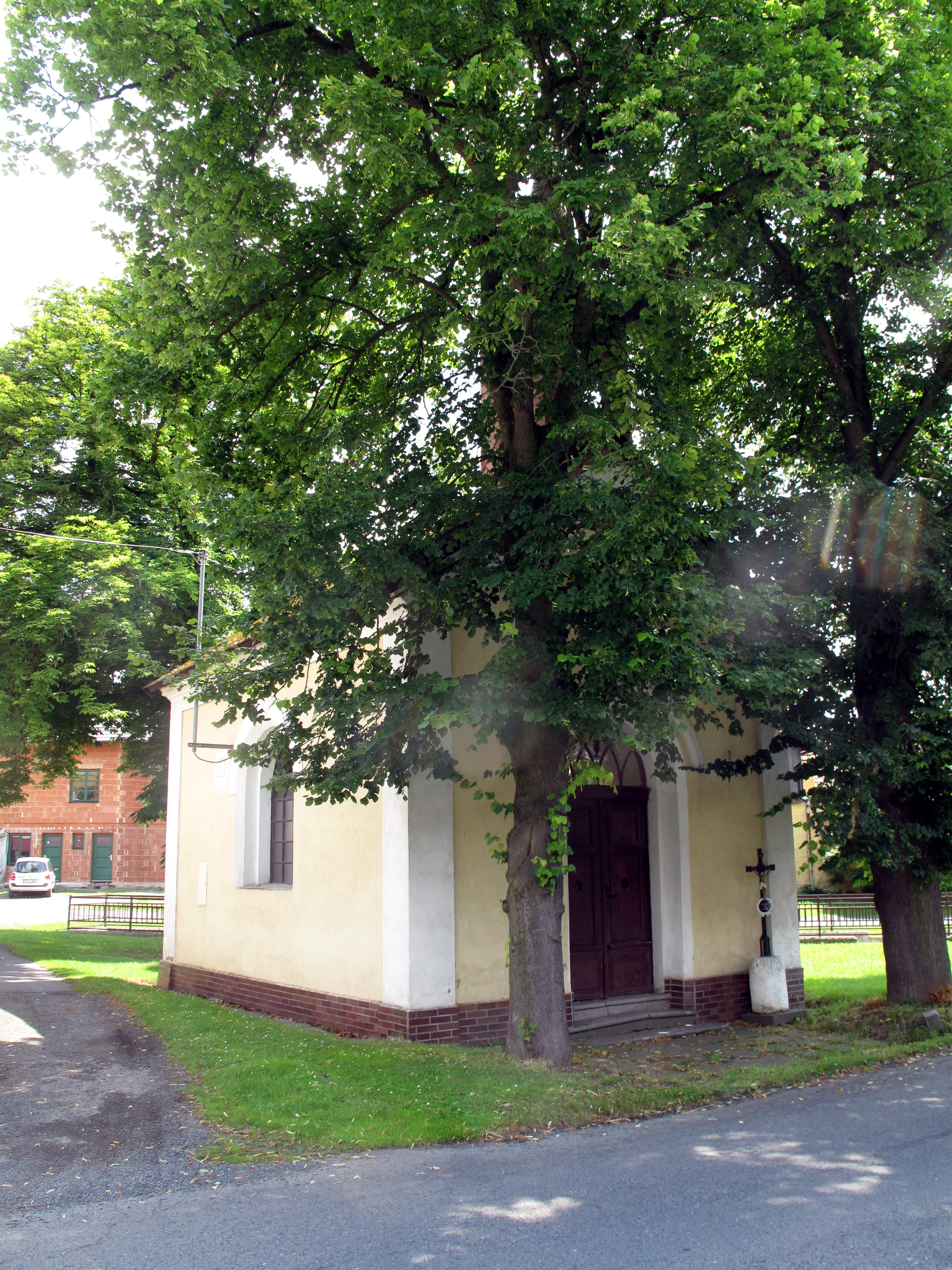 Zahořany village in Domažlice District, Czech Republic